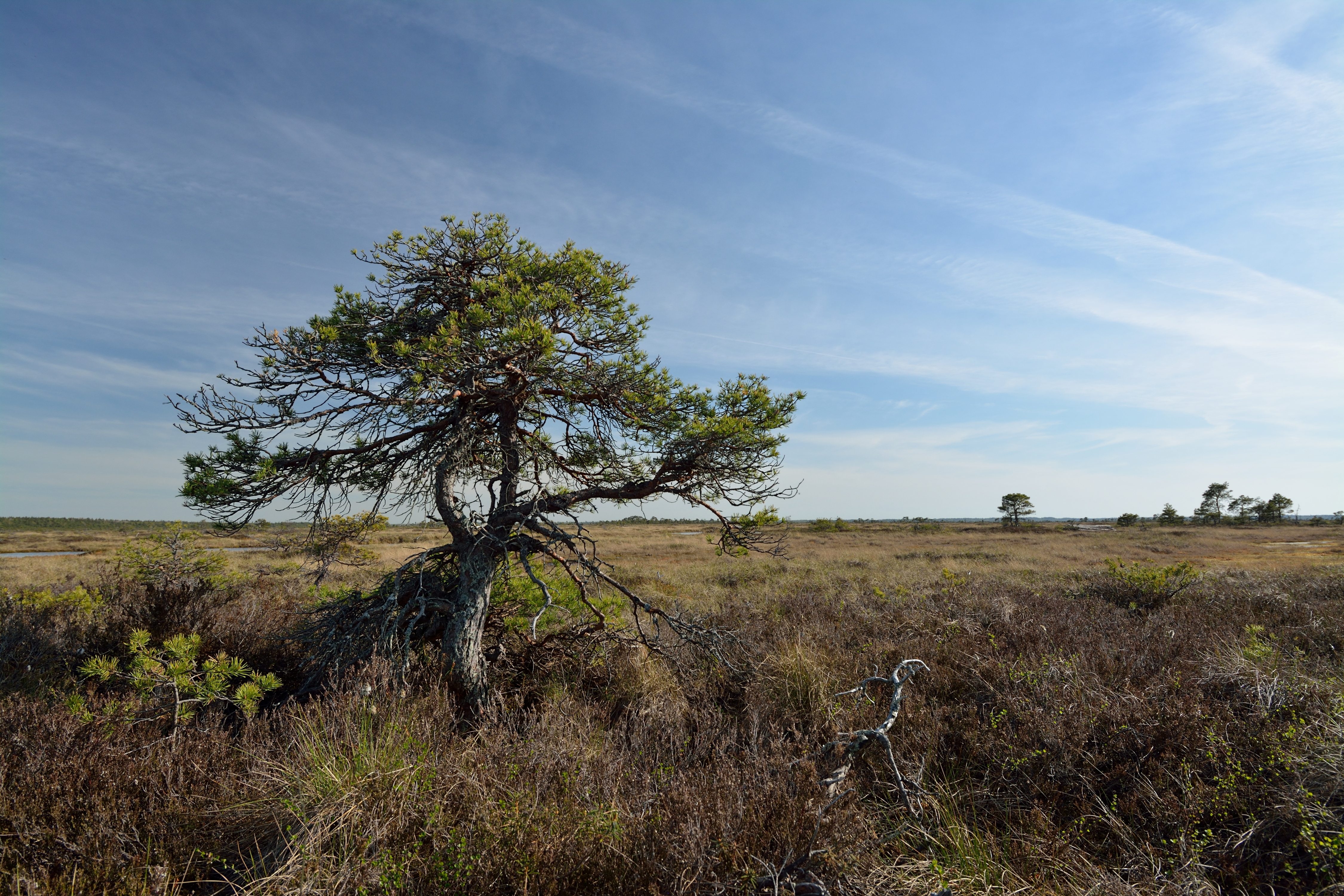 Pinus sylvestris in Marimetsa bog.